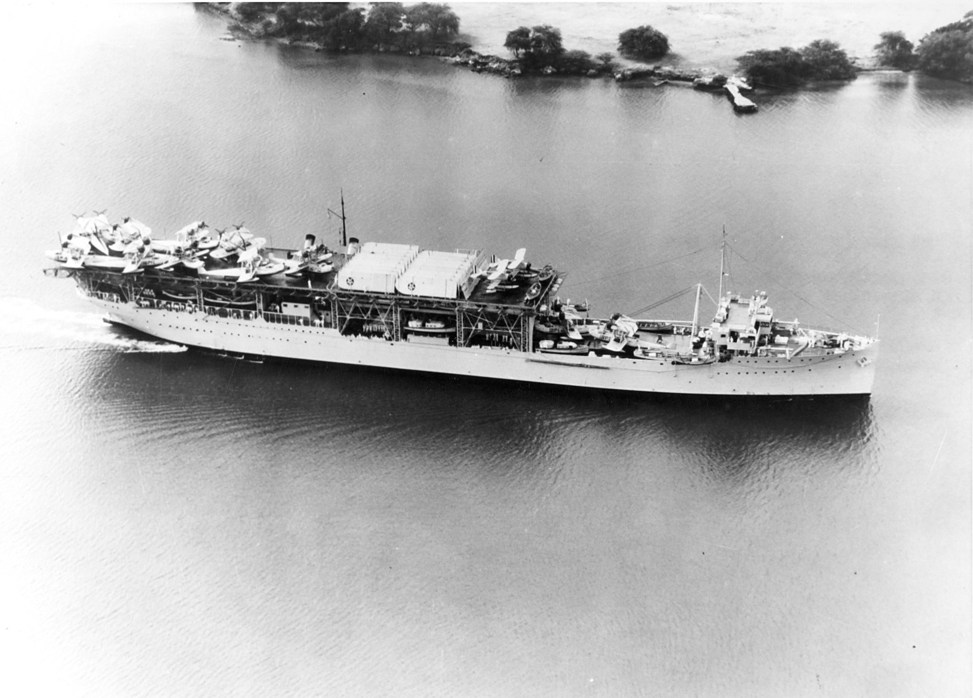 The U.S. Navy seaplane tender USS Langley (AV-3) is loaded with equipment and personnel of VP-1 and VP-18 at Pearl Harbor, Hawaii, 29 July 1938.